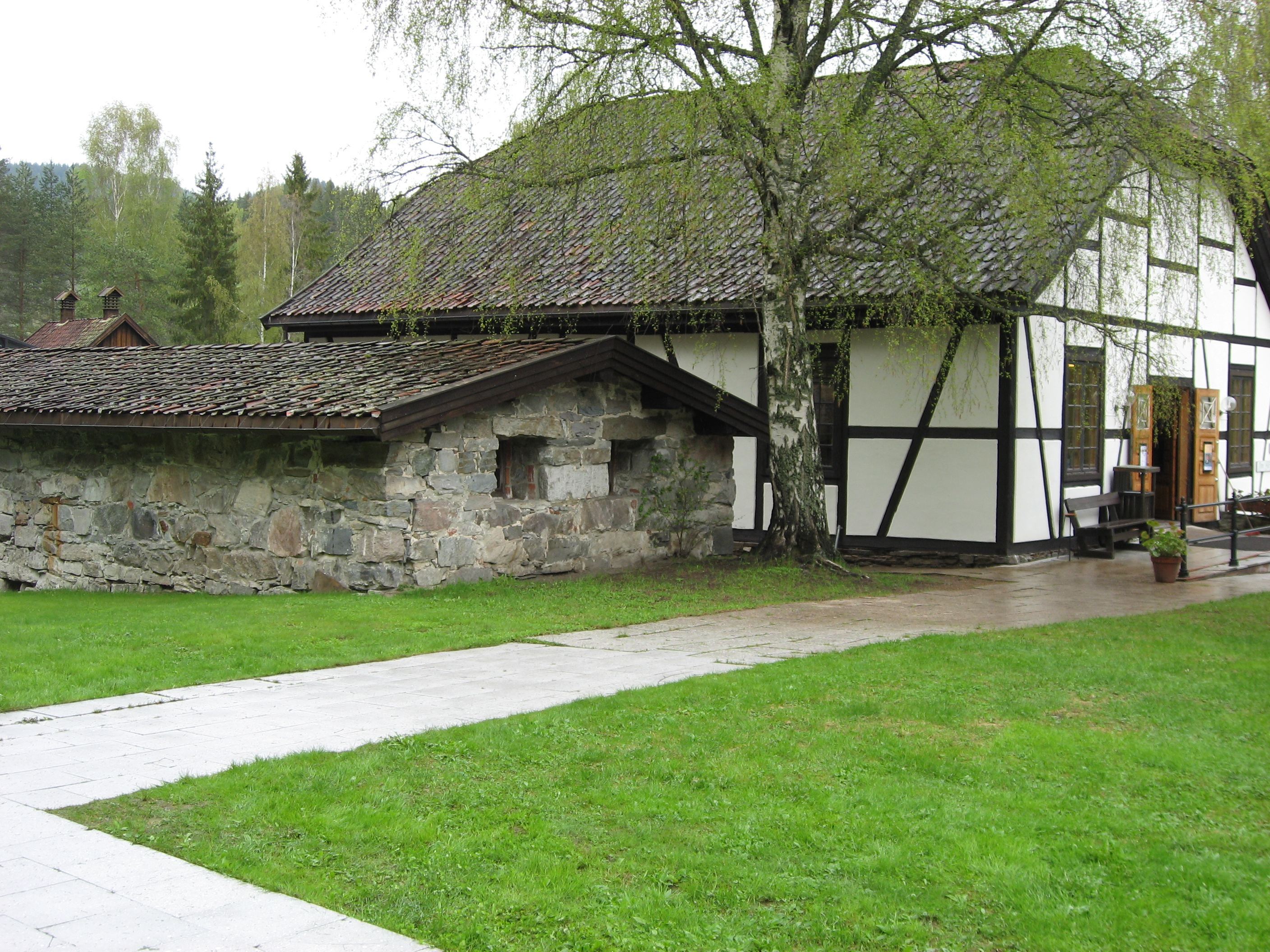 From the museum and art gallery Blaafarveværket in Modum, Norway. This is "mølla".